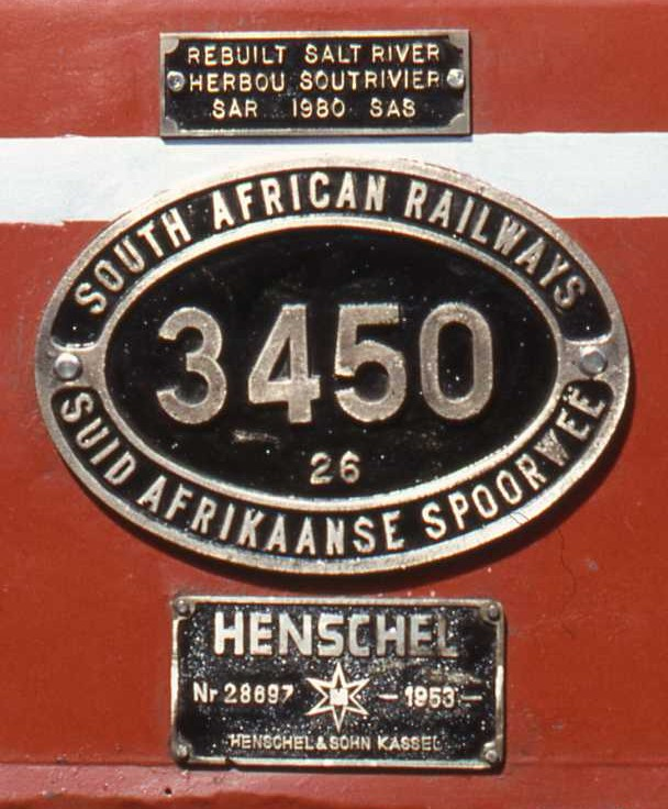 SAR Class 26 3450 (4-8-4) Henschel Location: Pretoria